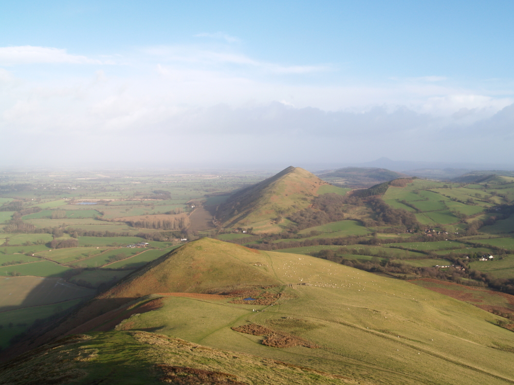 View from Cear Caradoc towards the Lawley